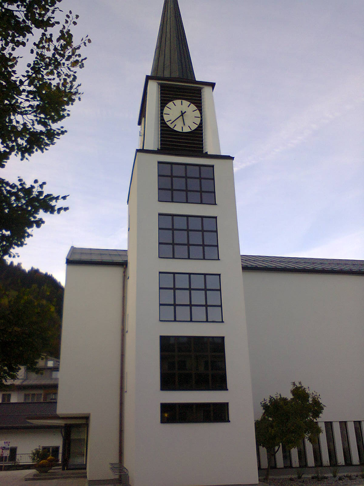 Pius X church Schüttdorf